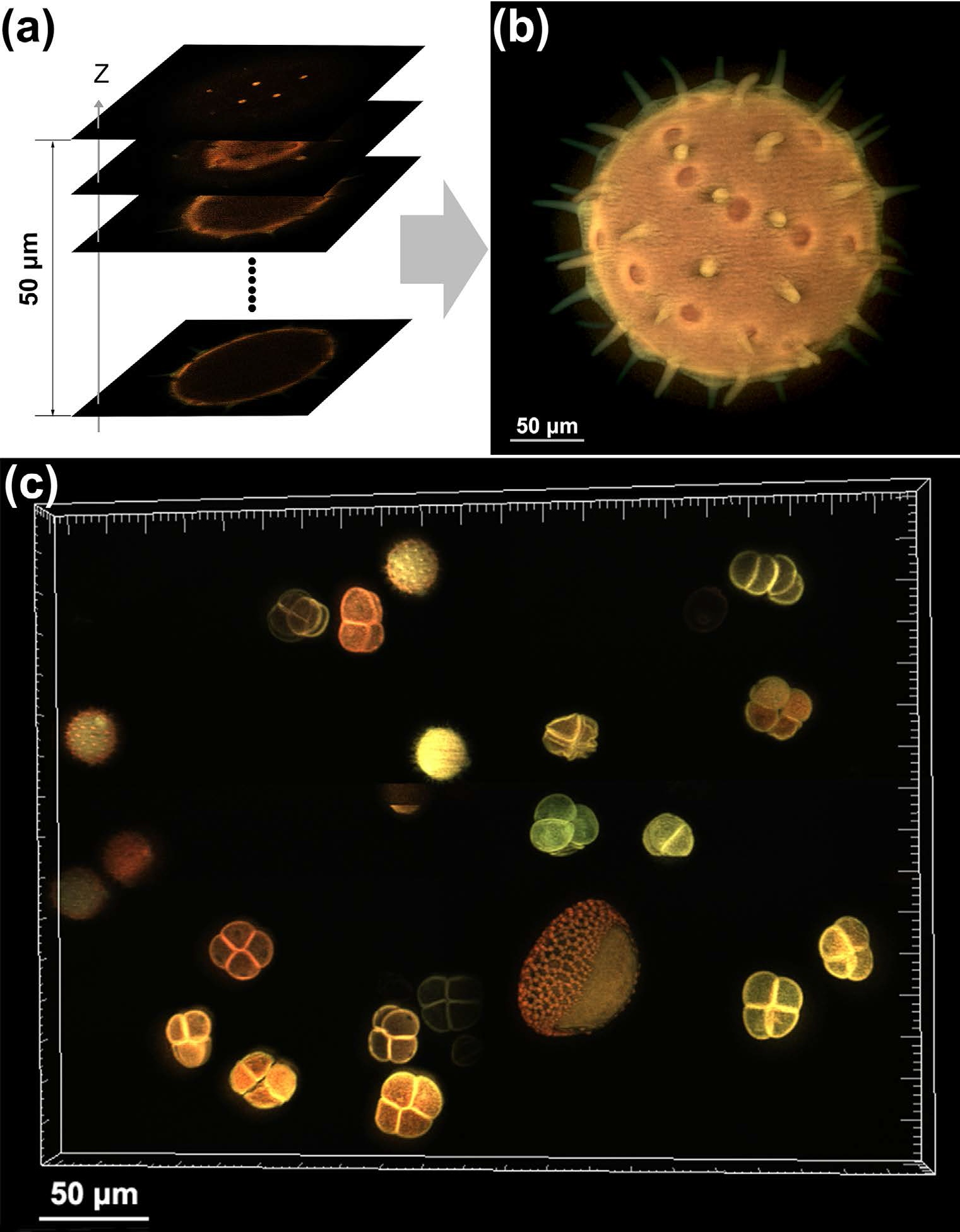 The auto-fluorescence signals of the pollen grains, excited by 405 nm light and collected by a 20 × objective. (a) A sequence of optically sectioned images. (b) The maximum-intensity projection of all the planes along Z-axis. (c) The maximum-intensity projection of differently shaped and colorful pollen grains